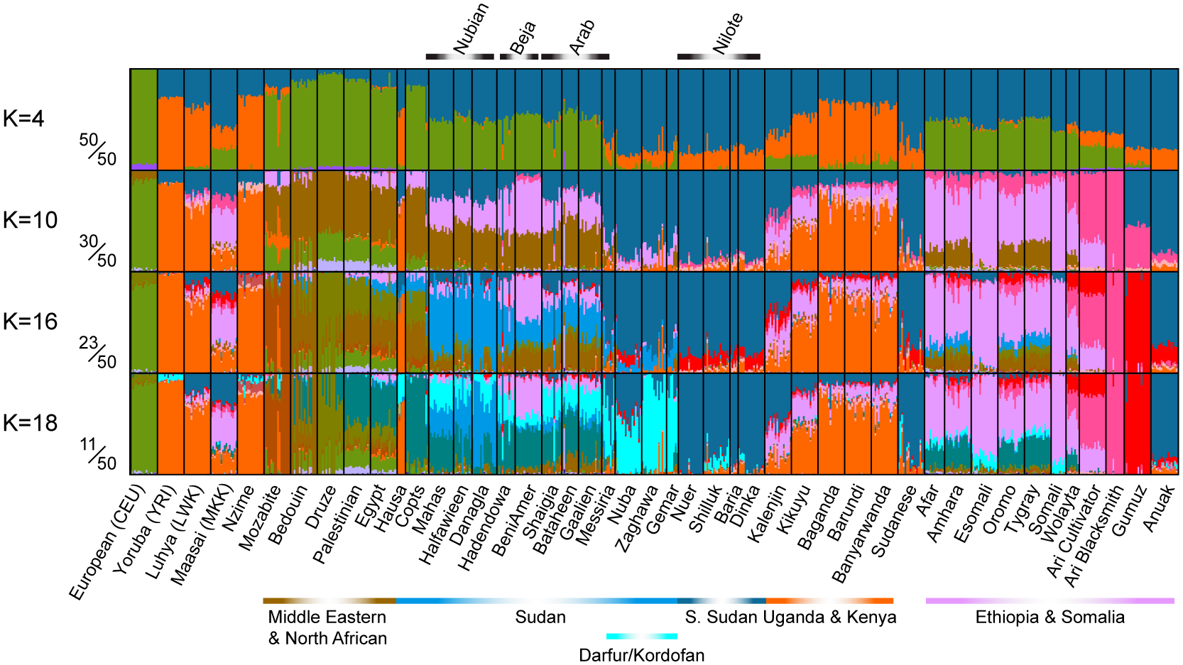 Inferred admixture fractions [51] for different choices of number of clusters. Four different numbers of clusters are displayed. The fractions on the left show the fraction of 50 replicate analyses that support of the most common and displayed mode [52]. Populations that did not contribute to the African variation were removed from this figure. See S3 Fig for the full range of populations and additional K. The bars on top represent the ethnic group, the bars on the bottom indicate geographic grouping.